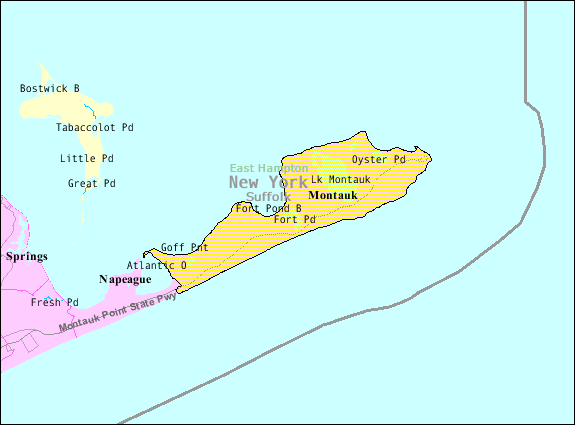 U.S. Census 2000 reference map for Montauk